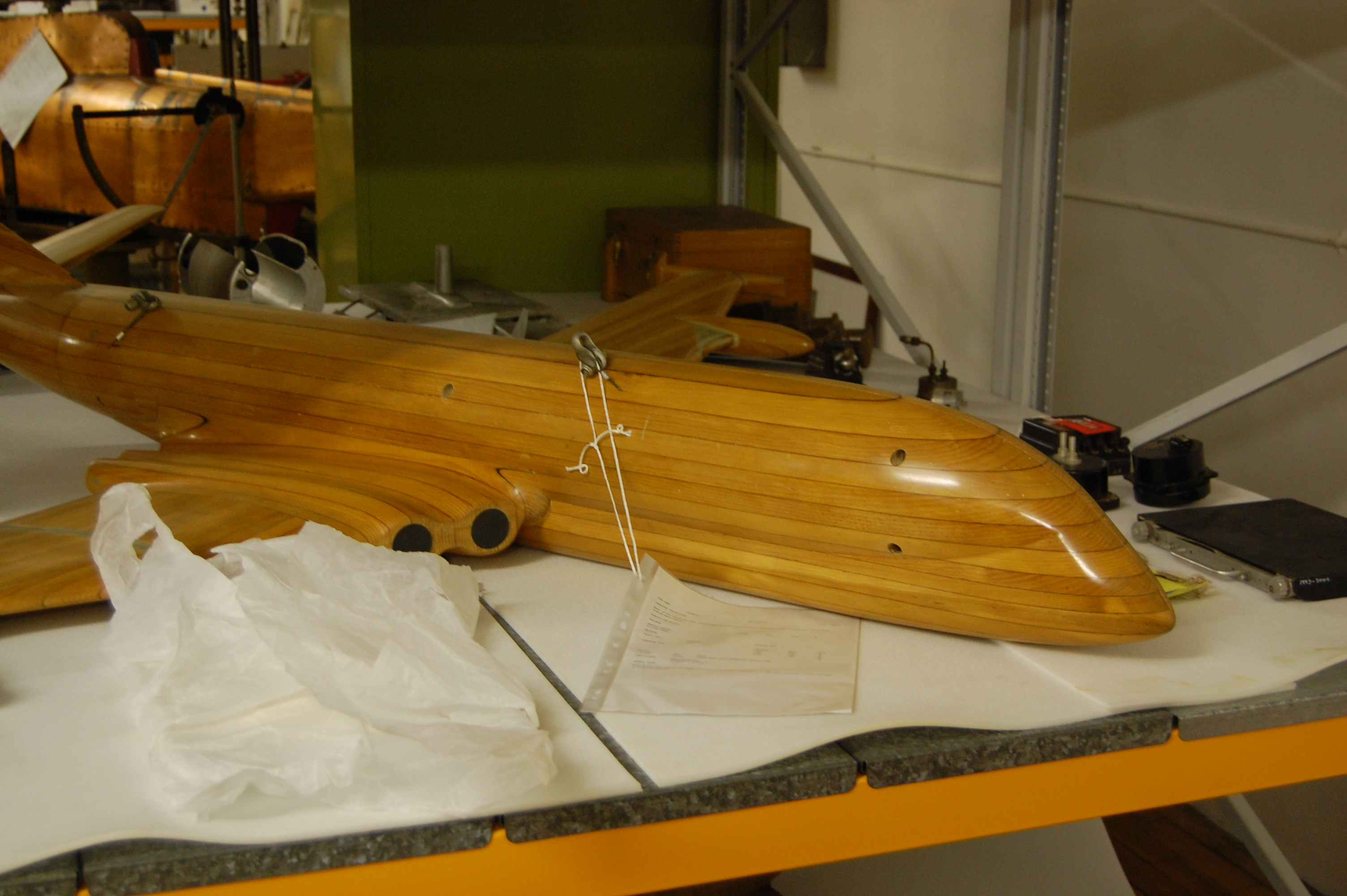 Wooden windtunnel model of a Hawker Siddeley Nimrod aircraft in the Science Museum's Blythe House, Science Museum small objects store